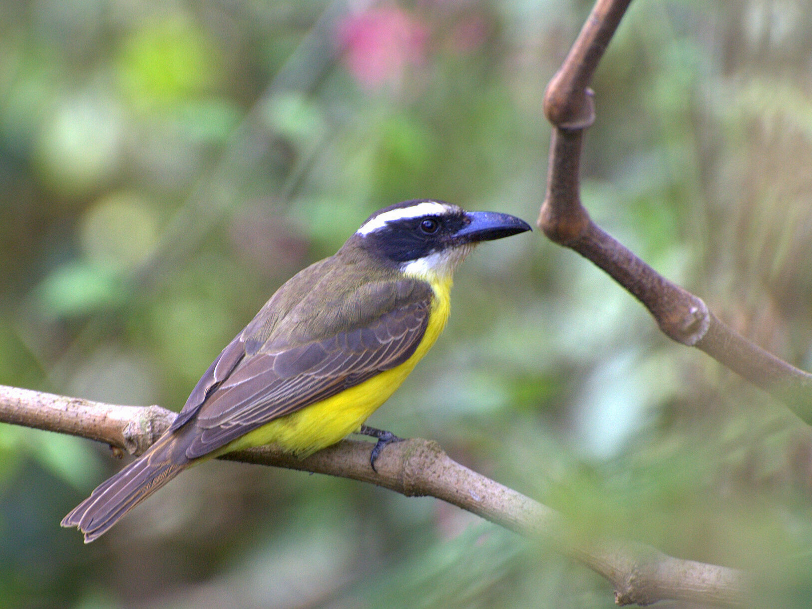 Boat-billed Flycatcher Megarynchus pitangua, Horto Florestal de São Paulo, Brasil